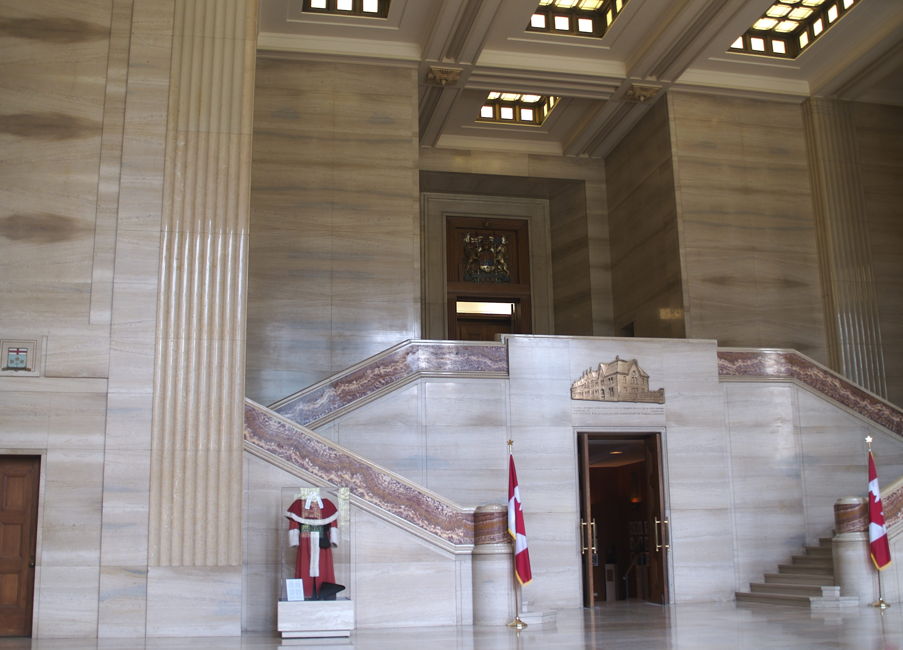 Supreme Court interior, Ottawa, Canada.